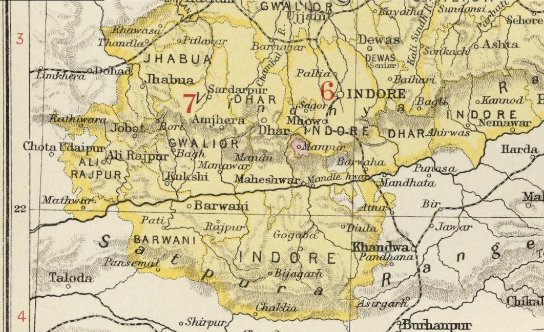 1909 Imperial Gazetteer of India Central India map section